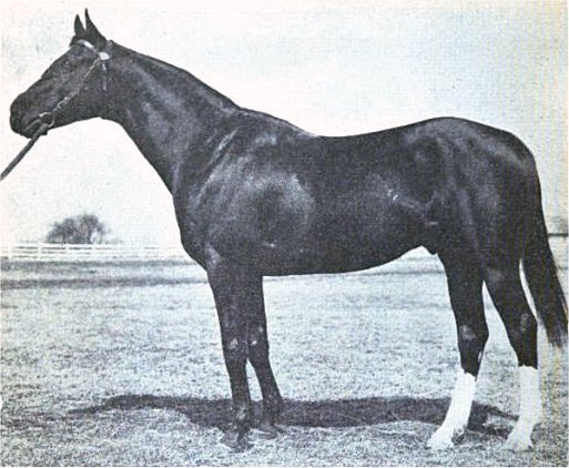 Hamburg, American racehorse and leading sire in early 1900s. Picture taken in early 1900s.